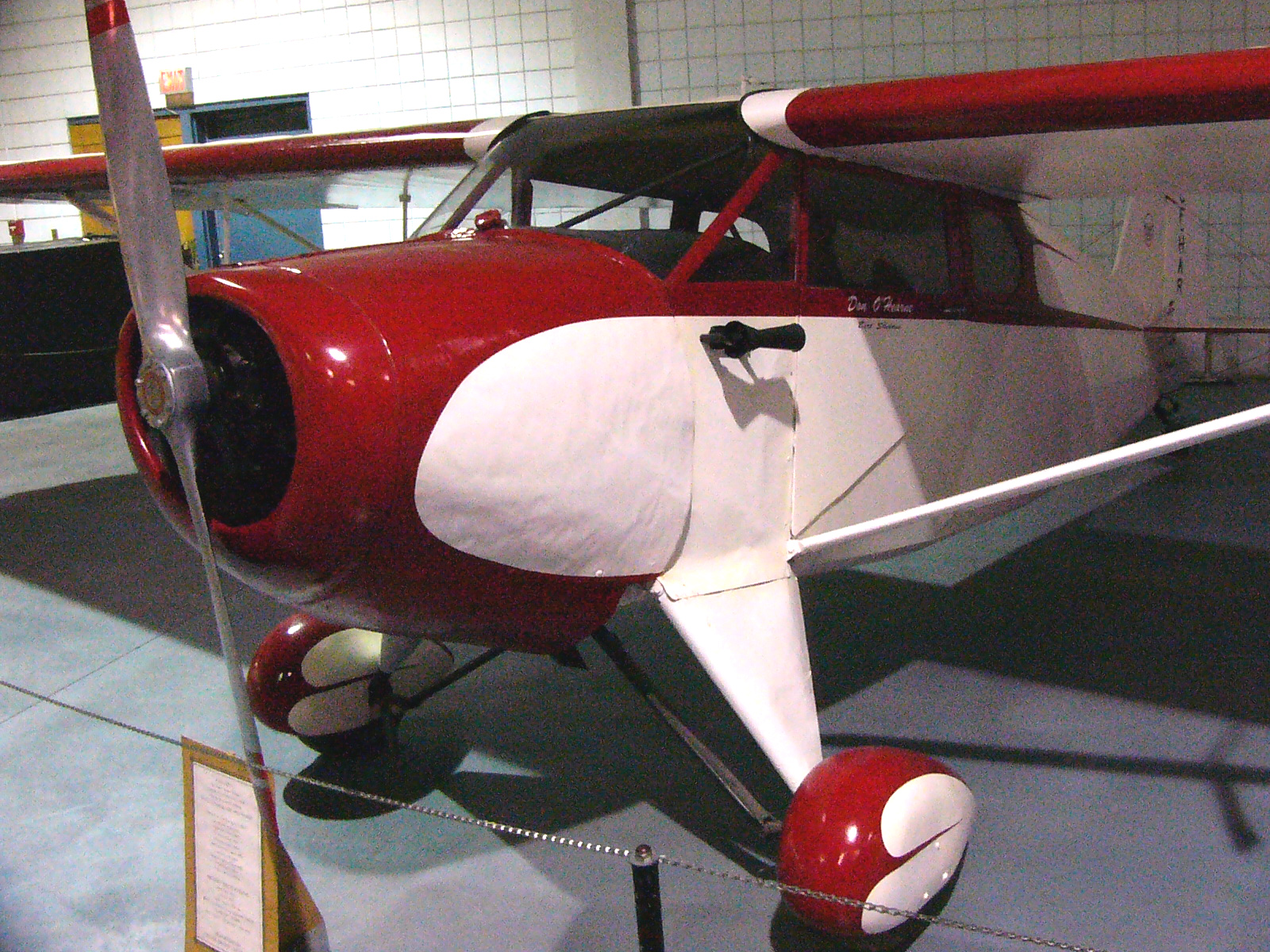 Funk Model B85C in the Western Development Museum Moose Jaw